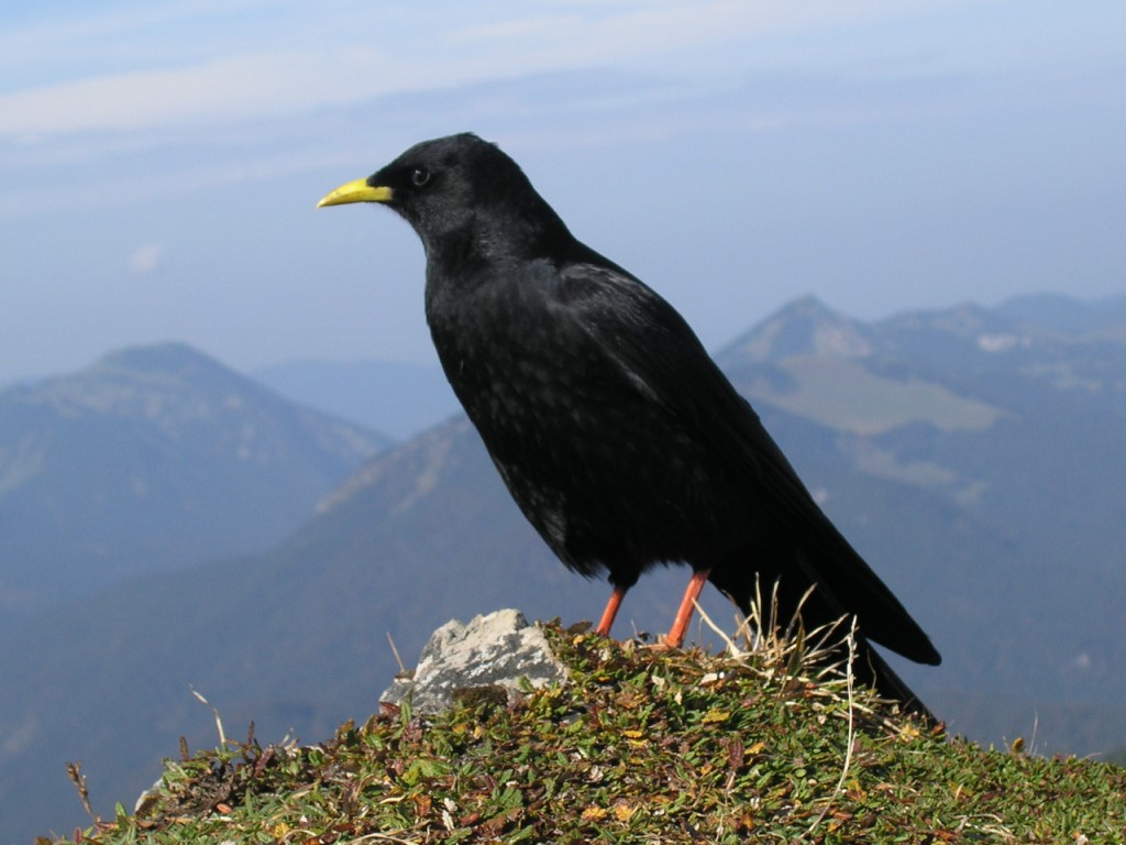 Alpine Chough